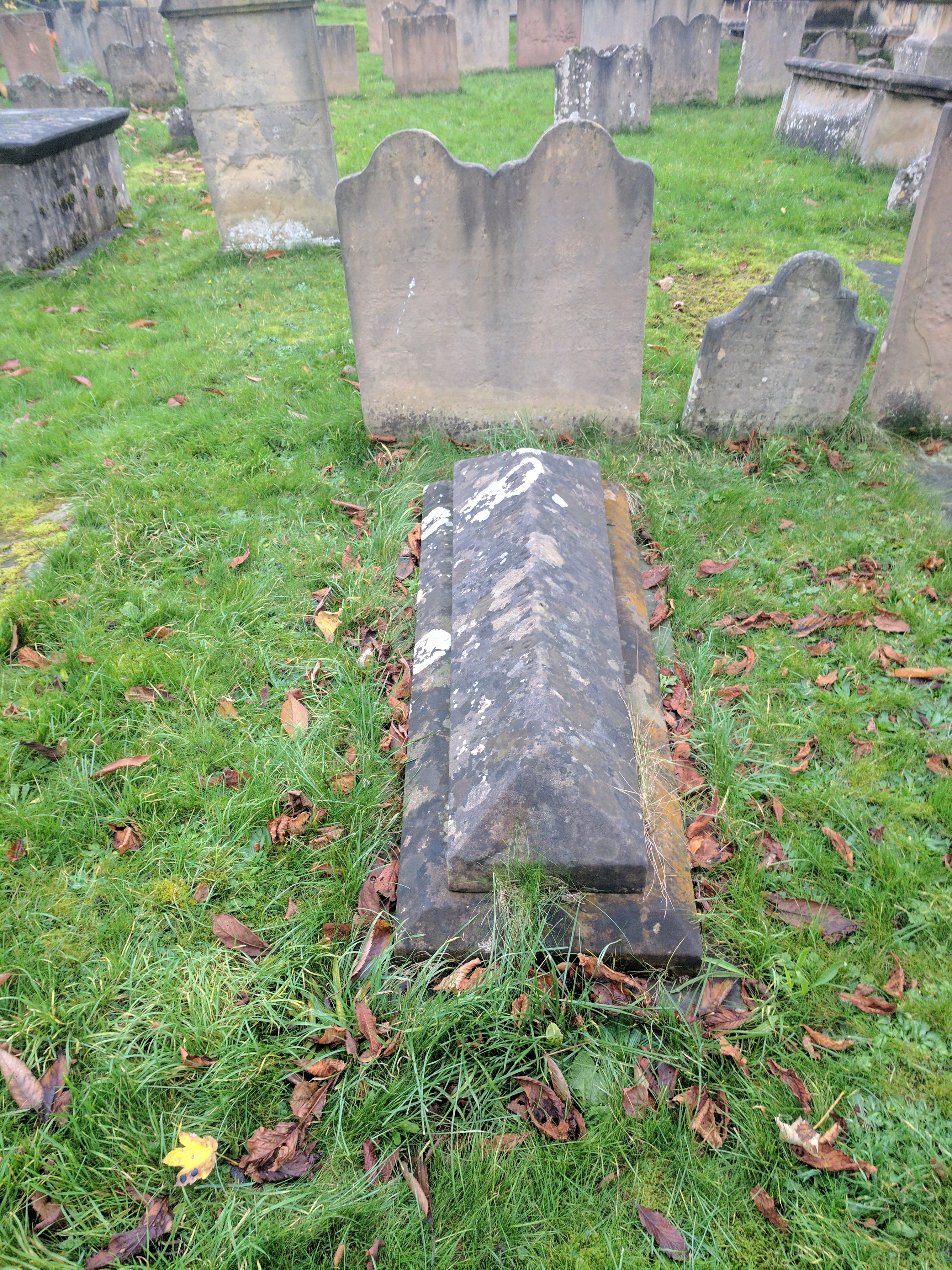 Headstone And Chest Tomb 10 Metres South Of Chancel At Church Of St Edmund, Church Street, Mansfield Woodhouse Wikidata has entry Q26553338 with data related to this item.